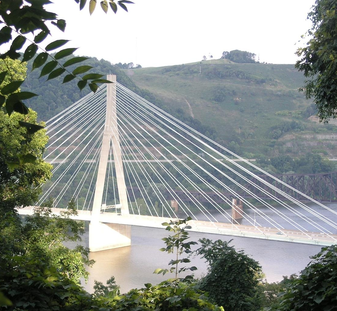 Steubenville Bridge from University